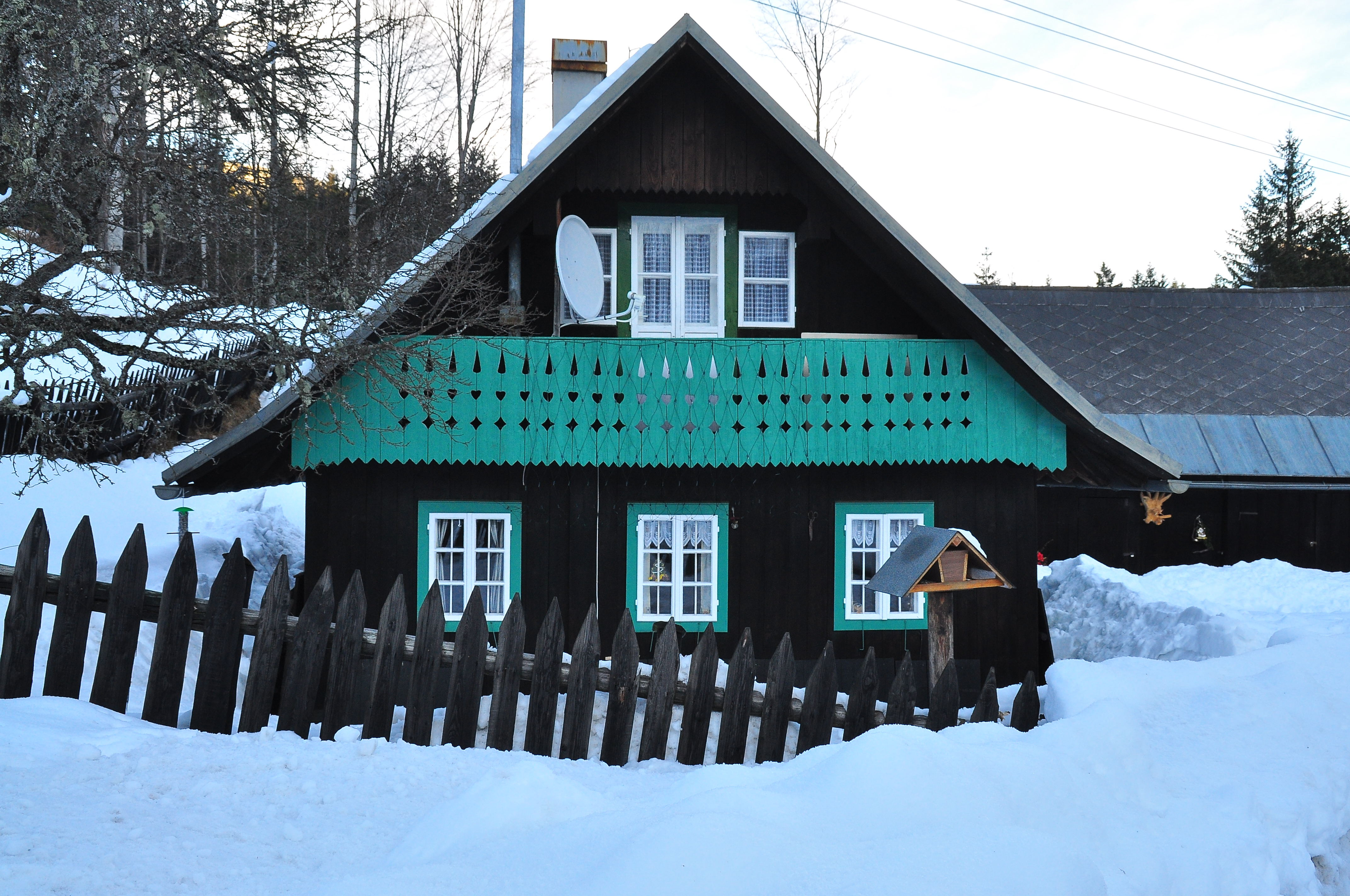 Traditional alpine hut in the Bodental, municipality of Ferlach, Carinthia, Austria